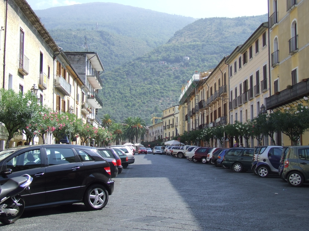 Roma Plaza from Piedimonte Matese, Province of Caserta, Italy